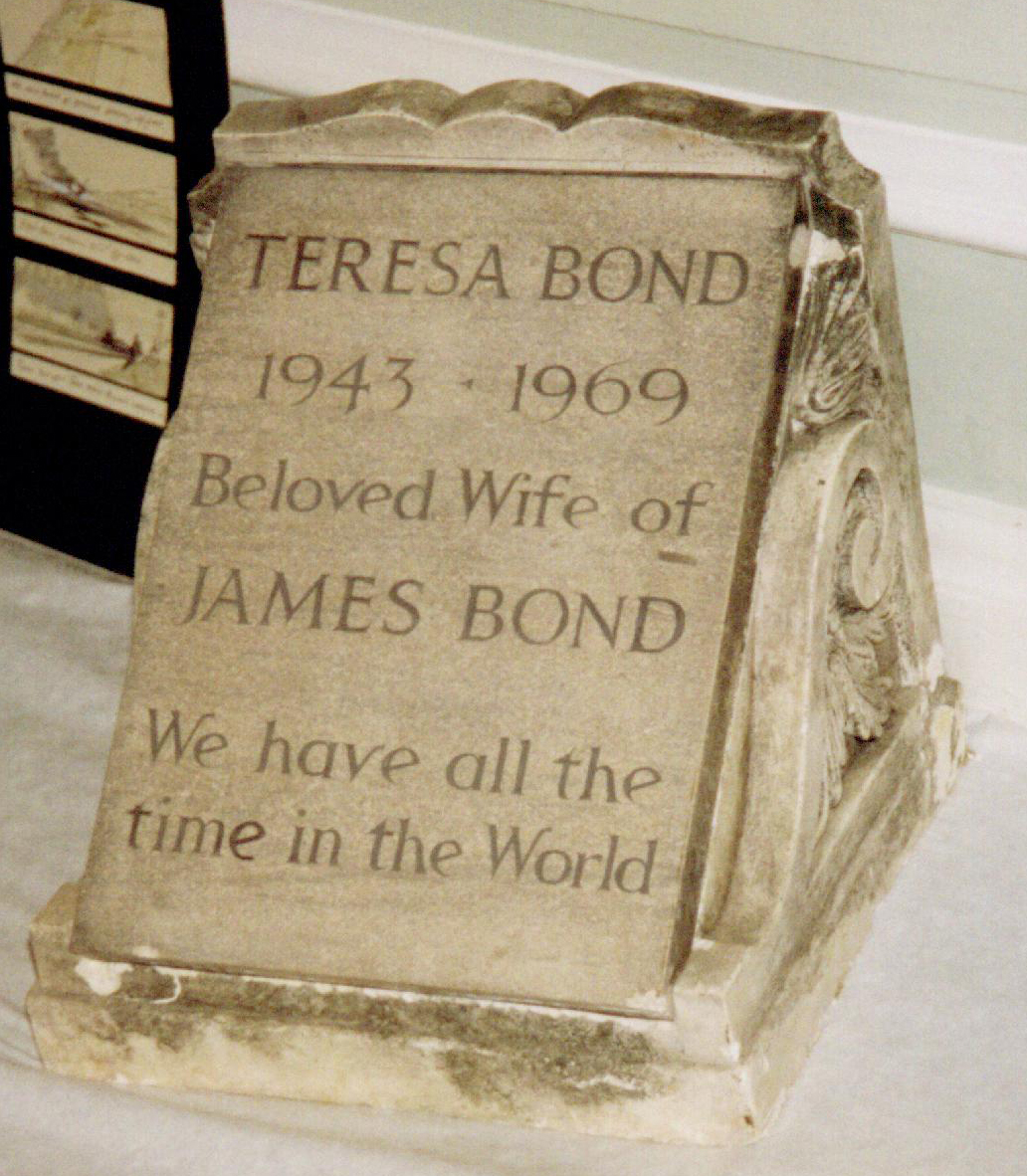 The tombstone of James Bond´s wife, Teresa, which Bond visits at the start of For Your Eyes Only. This prop was shown at a James Bond convention in 1992. Photograph by Lennart Guldbrandsson. The gravestone itself was engraved by Alfred Cyril Amoss of Barnet, London.